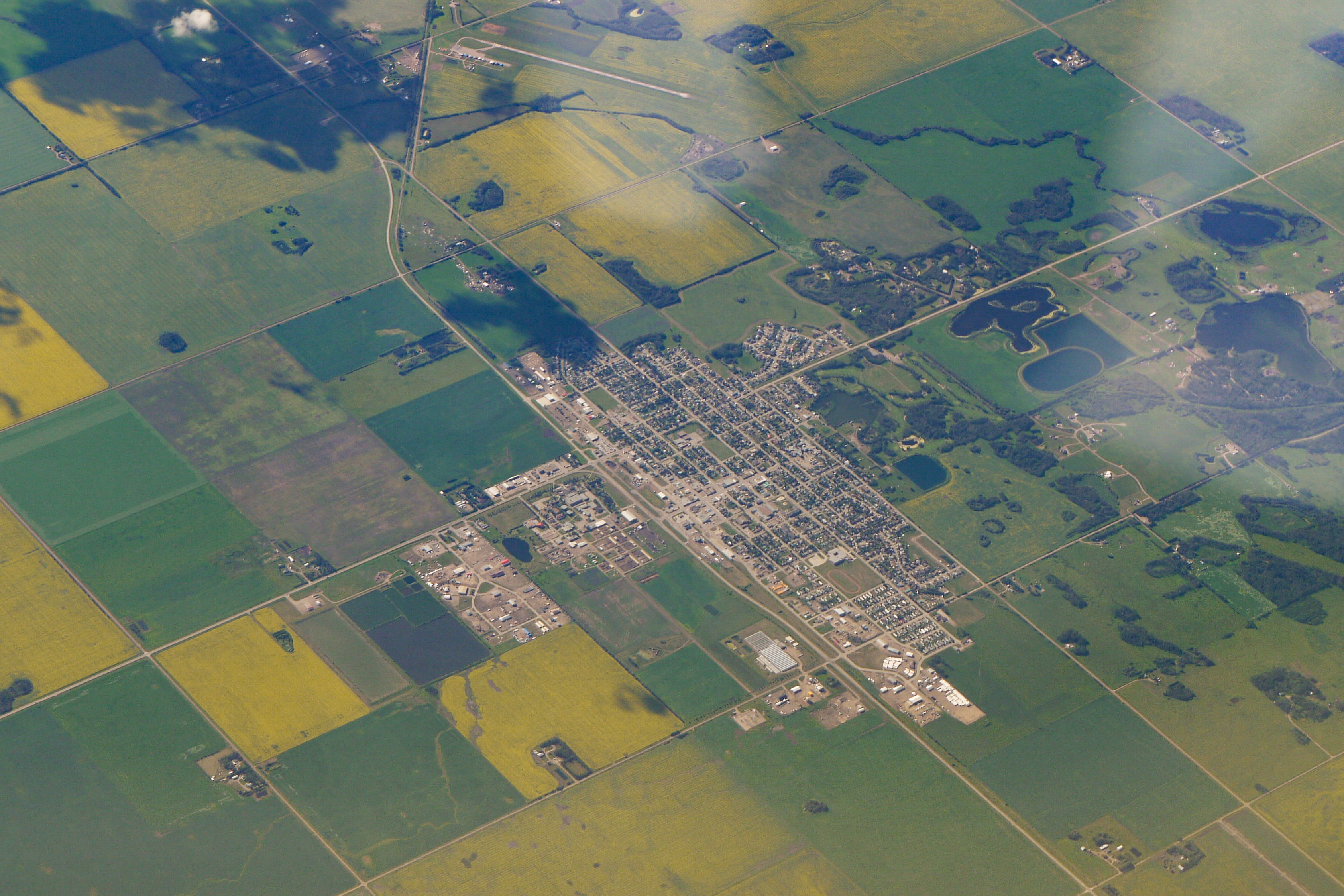 Fairview, Alberta, Canada in an aerial image. Photo was taken on an Icelandair flight from Keflavik (KEF) to Vancouver (YVR) in July 2016.